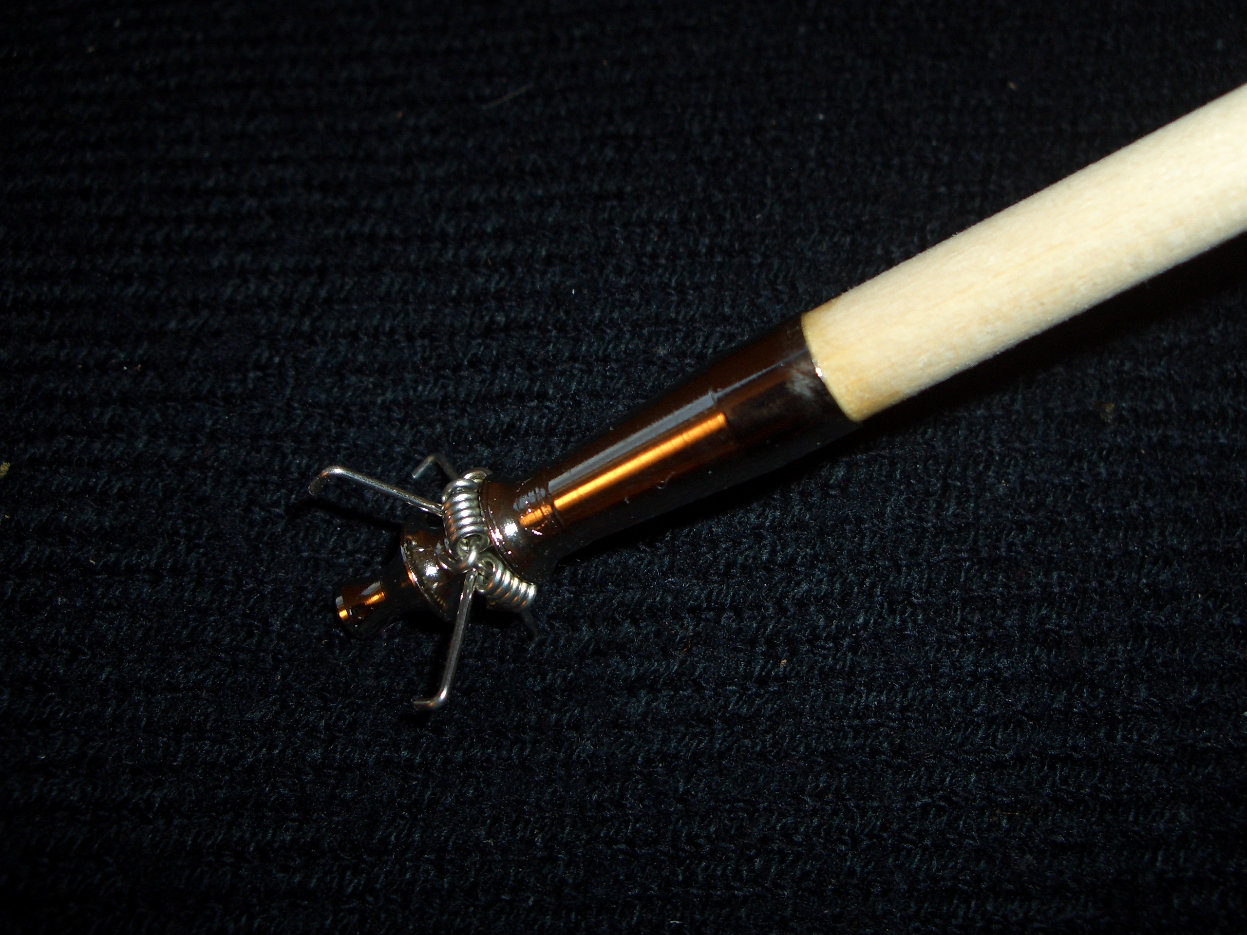 Judopoint arrowhead on a wooden arrow shaft